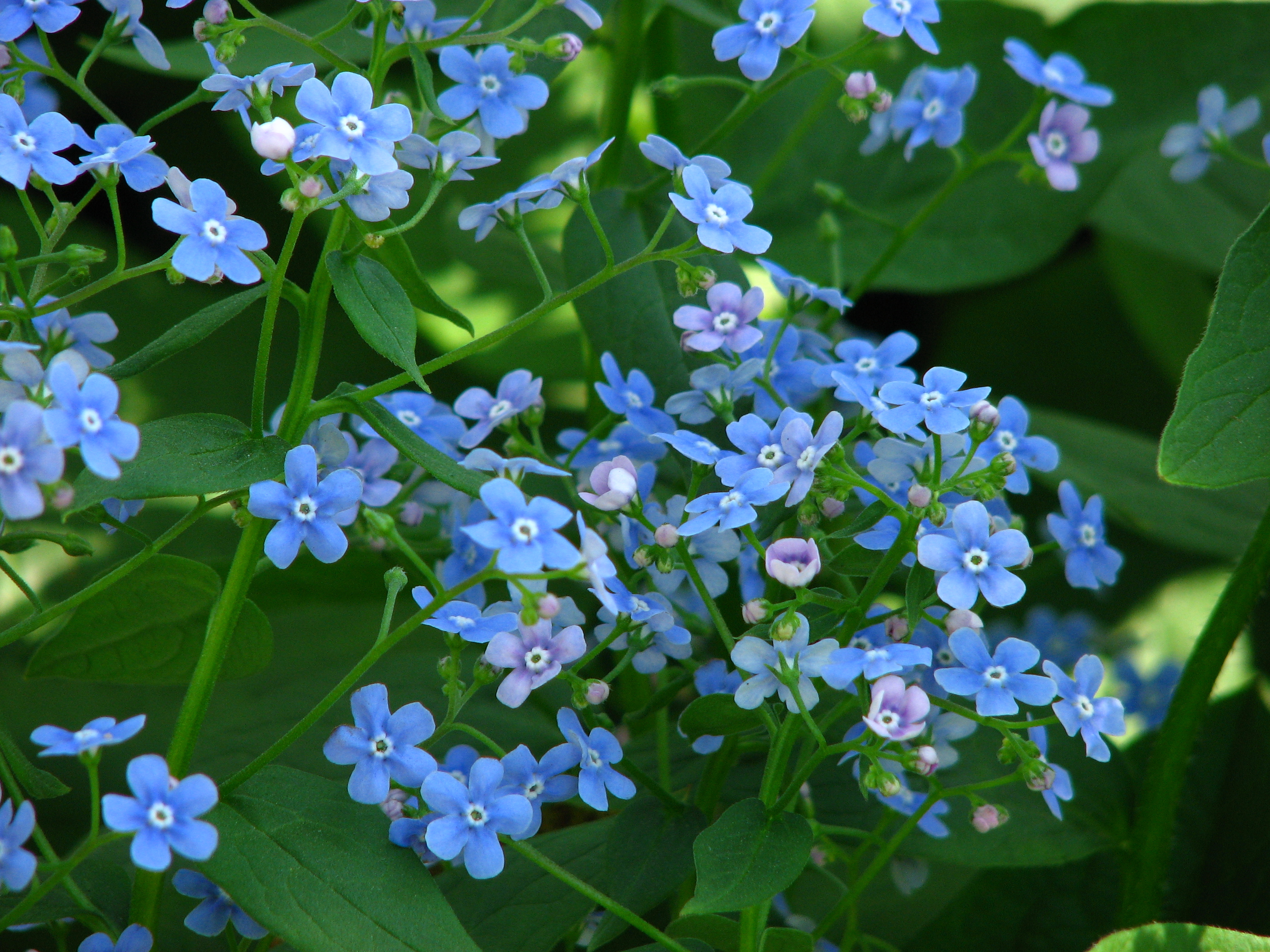 Brunnera macrophylla in flower beds in the Botanical Garden of Moscow State University "Aptekarsky Ogorod".